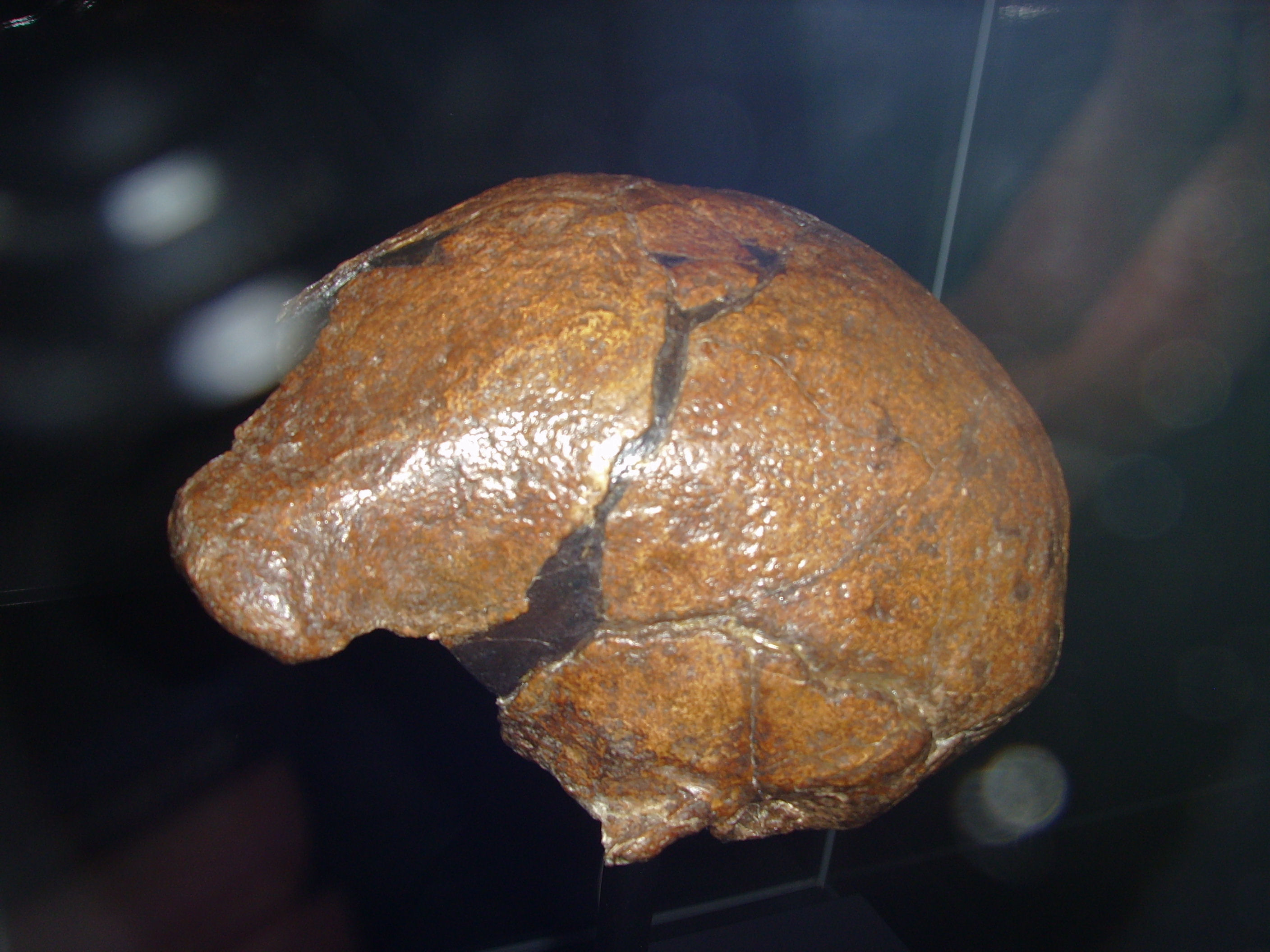 Calvarium (Schaedeldach) "Sangiran II" (Original) of Homo erectus, collection Koenigswald, Senckenberg-Museum, Frankfurt am Main, Germany